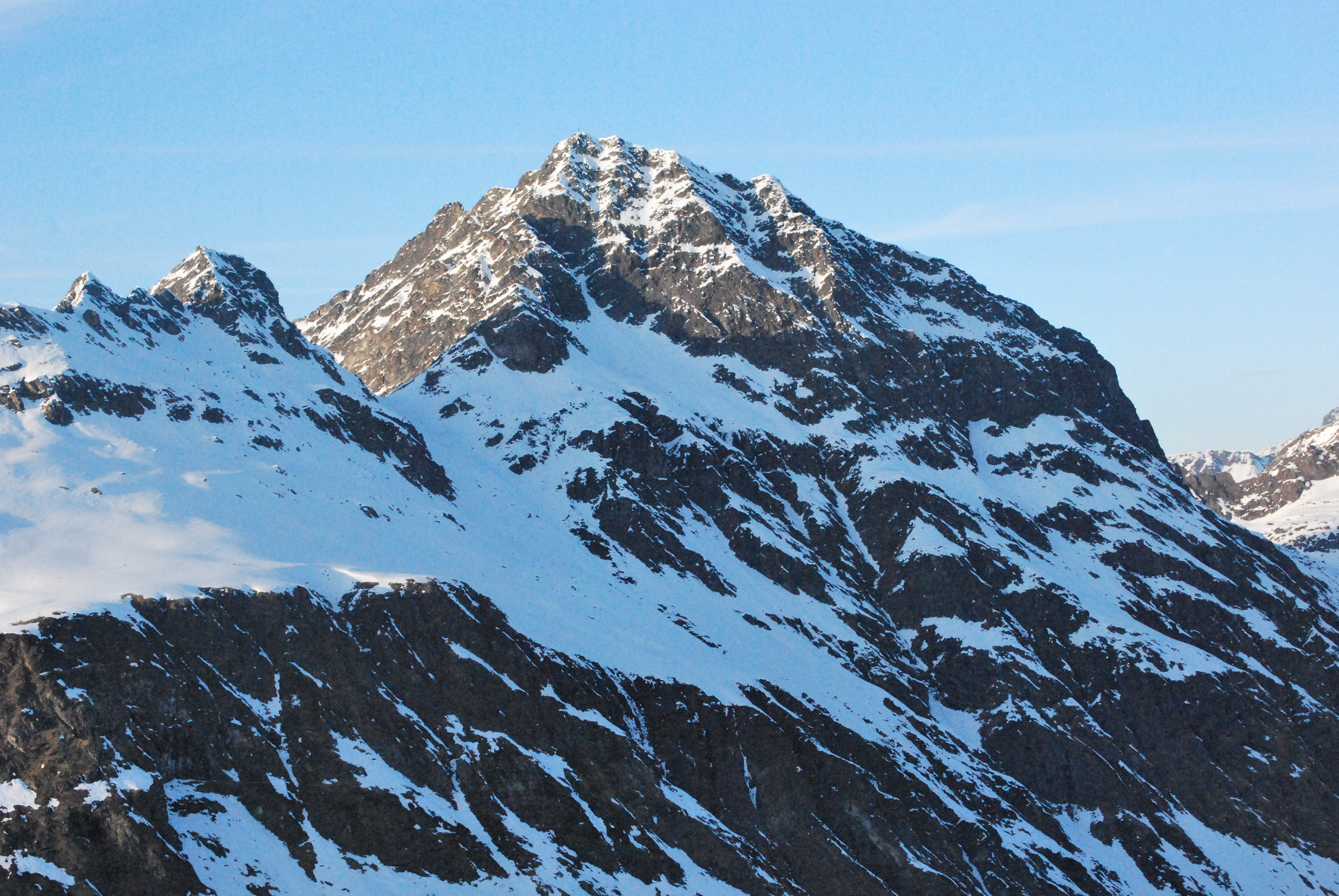 Vallüla from S: Kleine and Große Vallüla